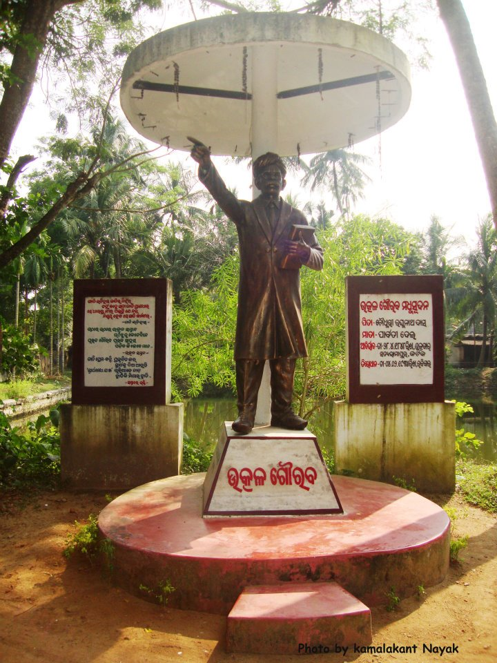 madhusudan das statue ଓଡ଼ିଆ: ମଧୁସୂଦନ ଦାସ